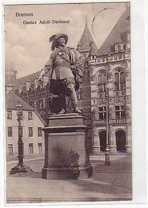 Monument to Gustav II Adolf of Sweden in Bremen, Germany, sculpted by Bengt Erland Fogelberg